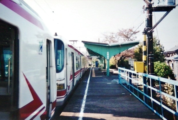 Meitetsu Ohsu Station platform (2001)